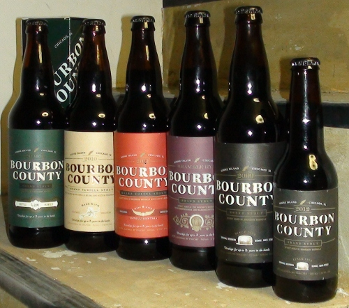 Left to right: Rare Bourbon County Stout (w/ cardboard display tube), Bourbon County Vanilla Stout, Bourbon County Coffee Stout, Bramble Rye Bourbon County Stout, Bourbon County Brand Stout (2009, 22 oz.), Bourbon County Brand Stout (2012, 12 oz.).